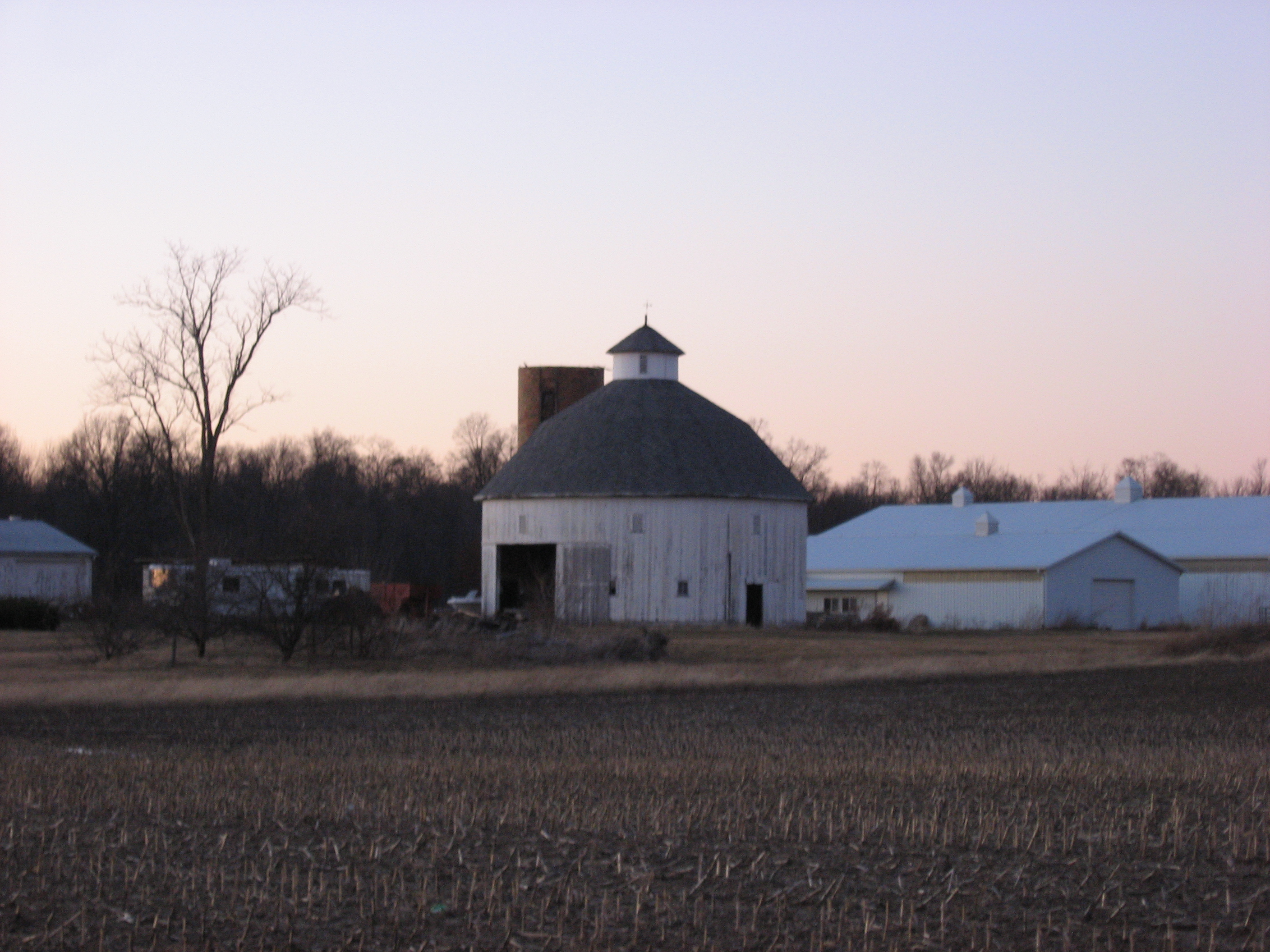 View from the south of the Rebecca Rankin Round Barn, located along the northern side of State Road 18 east of Fiat in northeast Penn Township, Jay County, Indiana, United States. Built in 1908, it is listed on the National Register of Historic Places.